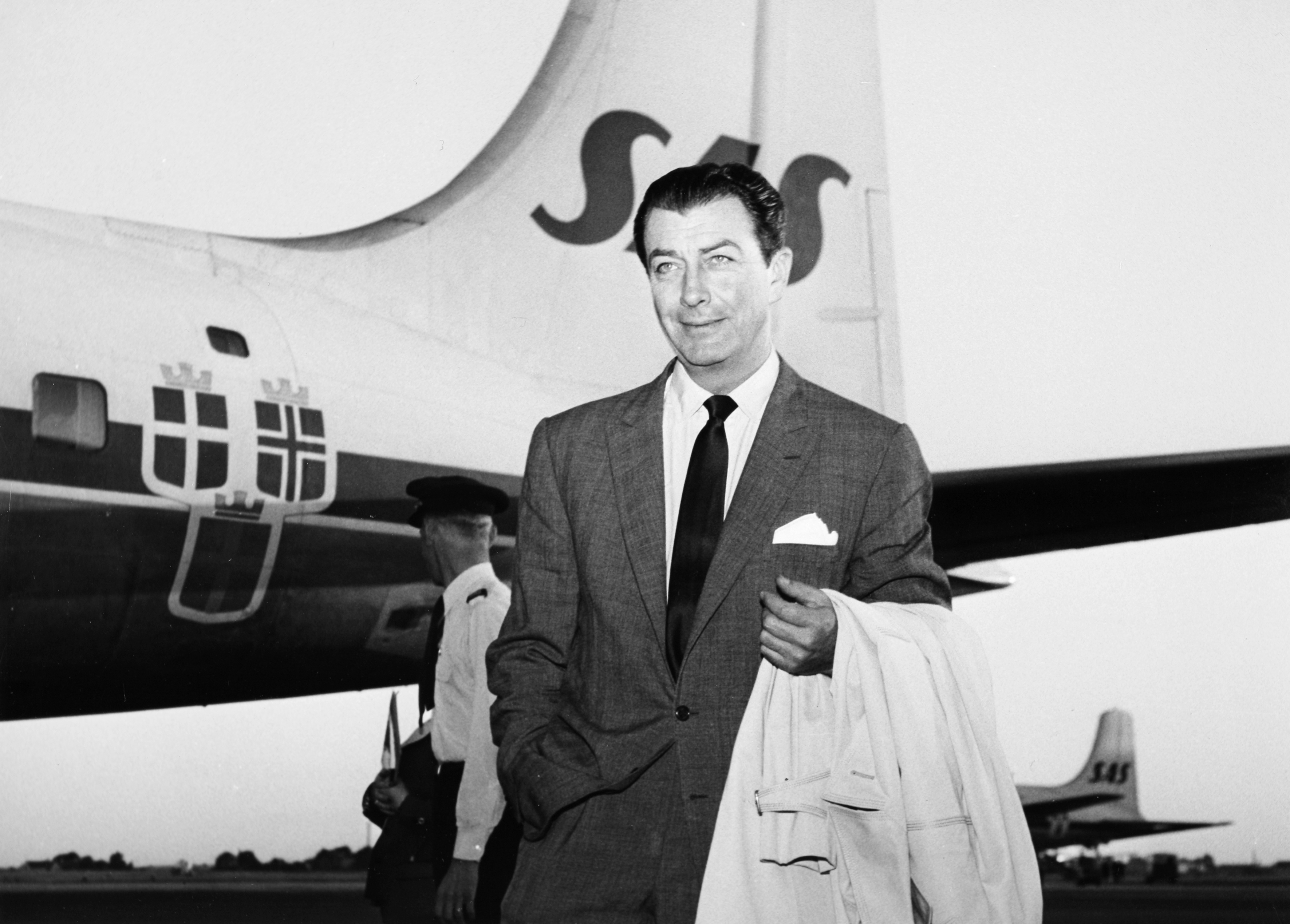 Robert Taylor, actor, USA. 1957-06-25. At the SAS polar route.